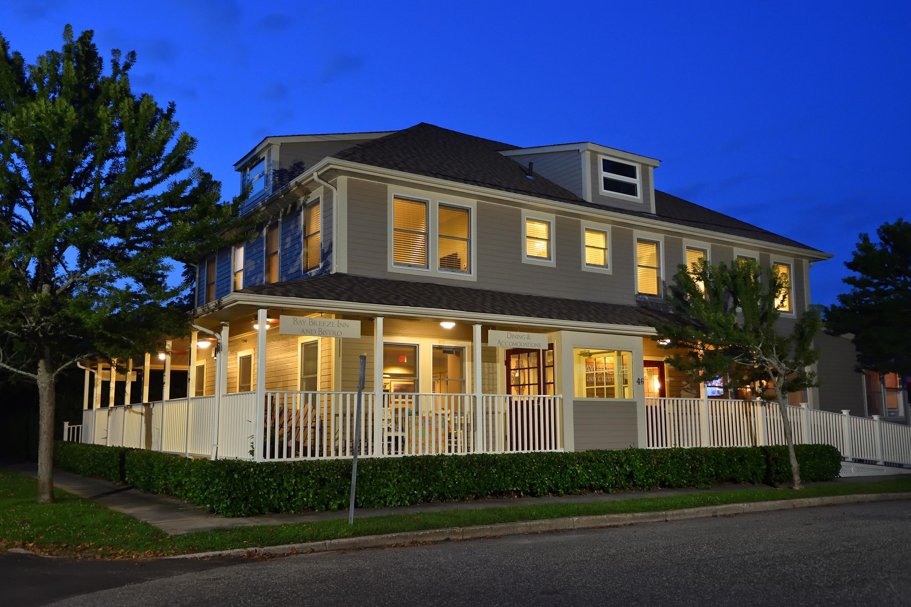 Bay Breeze Inn & Bistro 46 Front Street, Jamesport